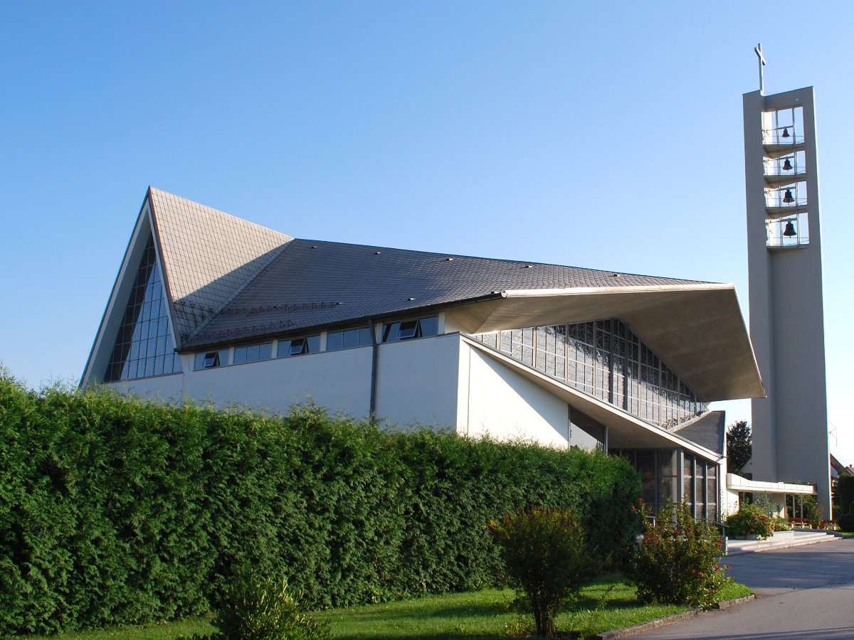 Church of Traun-St. Martin in Traun, Upper Austria, Austria